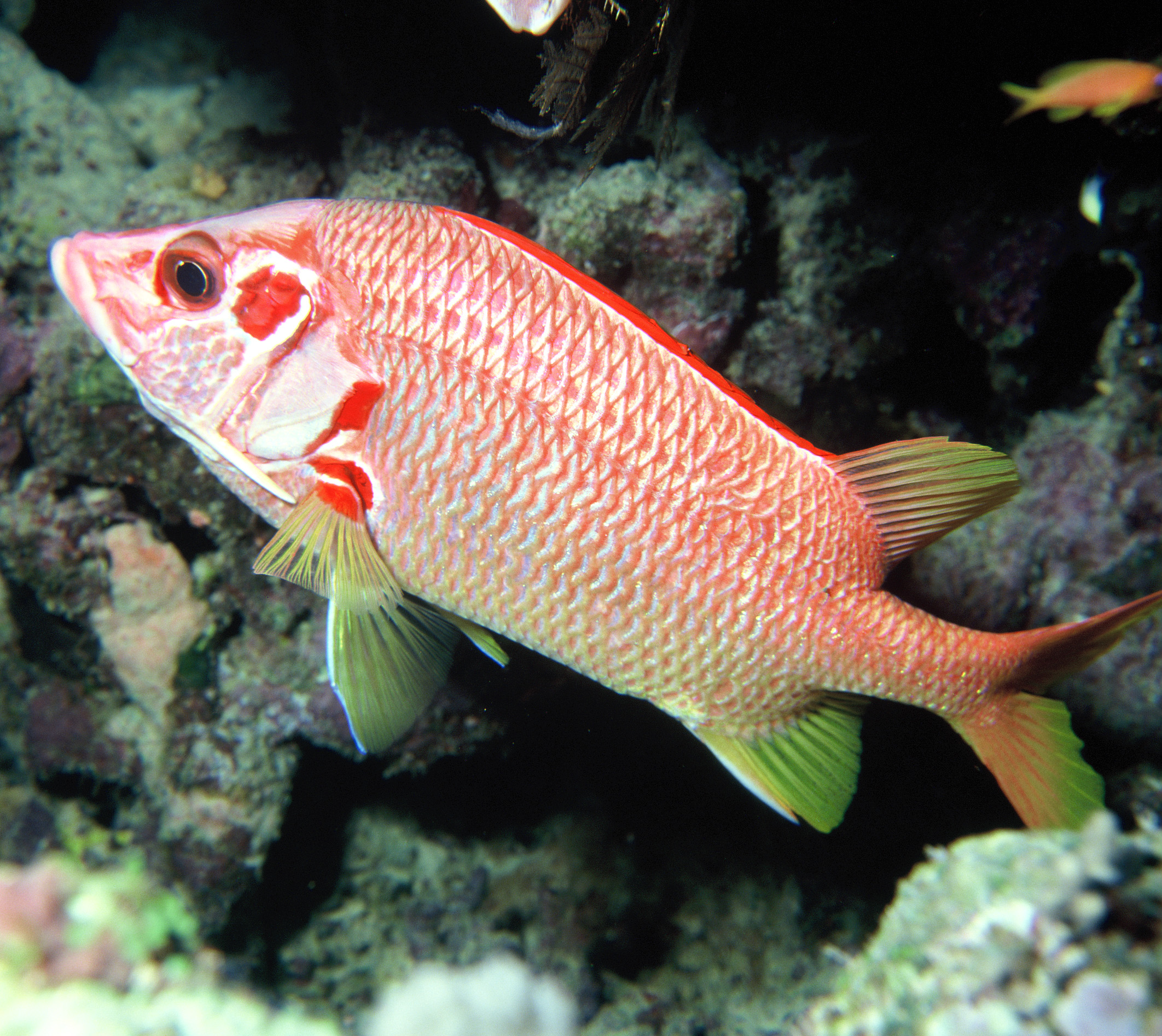 Sargocentron spiniferum